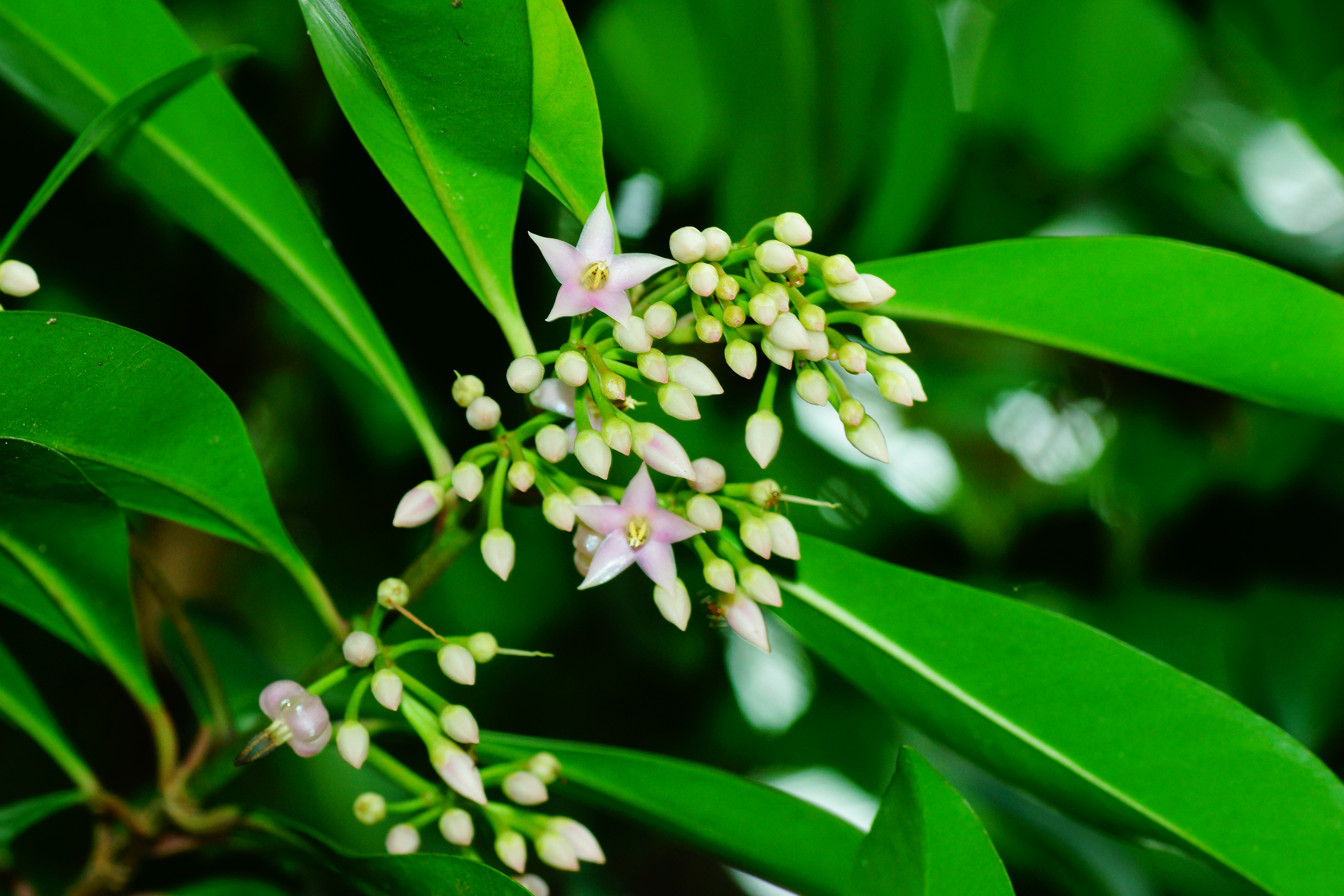 Ardisia forbesii